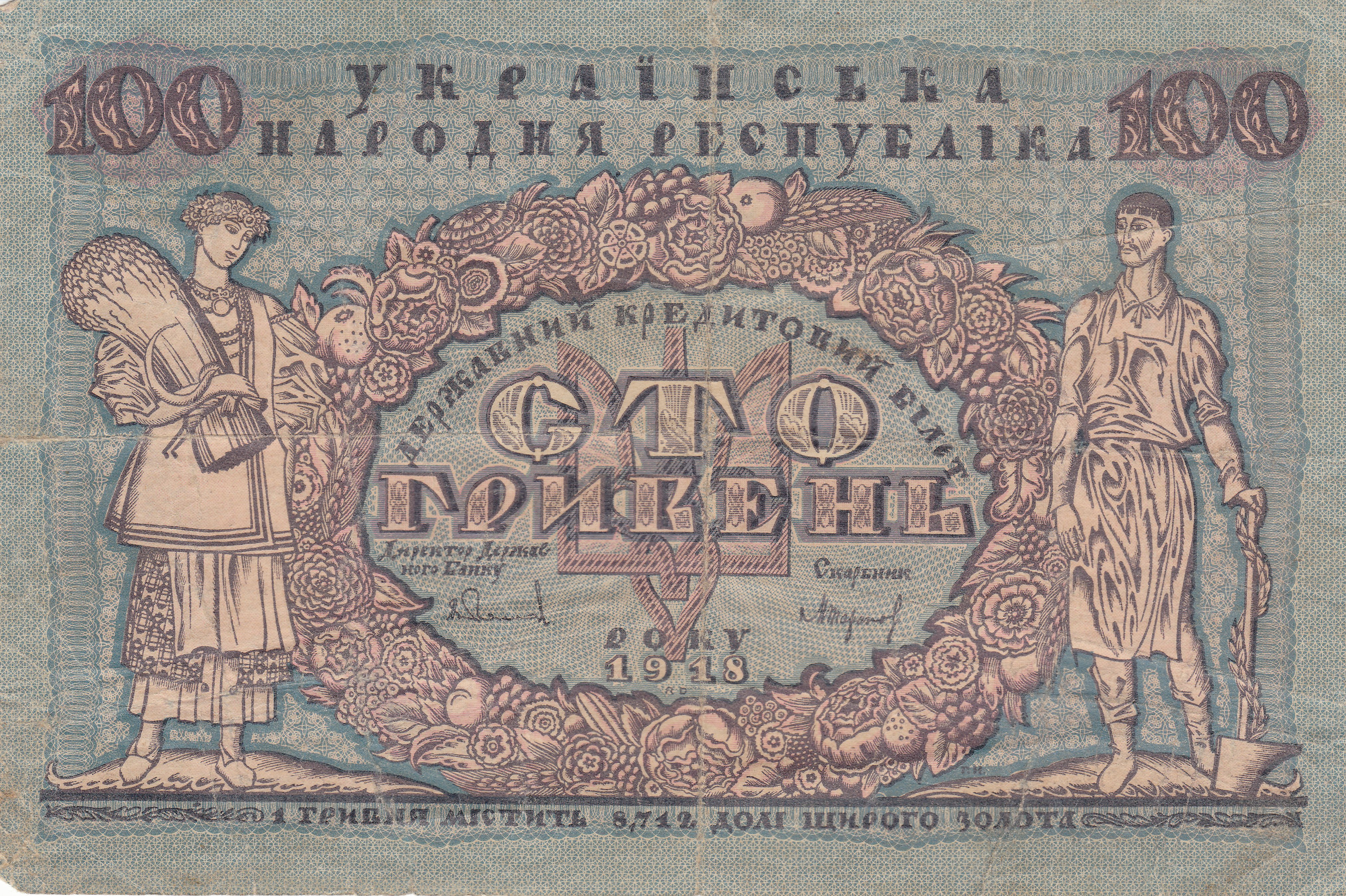 The front side of the 100 hryvnia's bank note of the Ukrainian People's Republic, which existed 1918–1921.